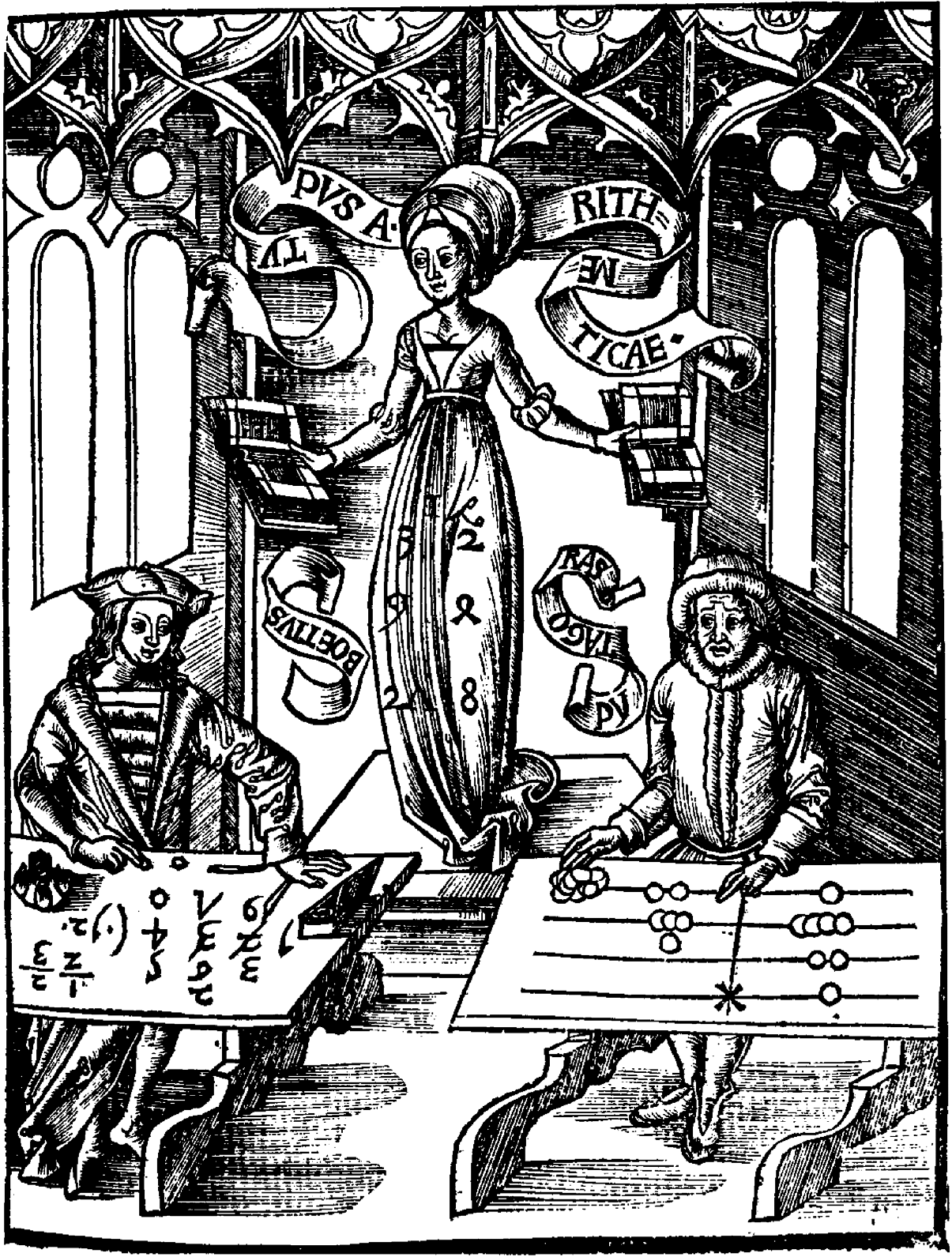 Gregor Reisch: Madame Arithmatica, 1508